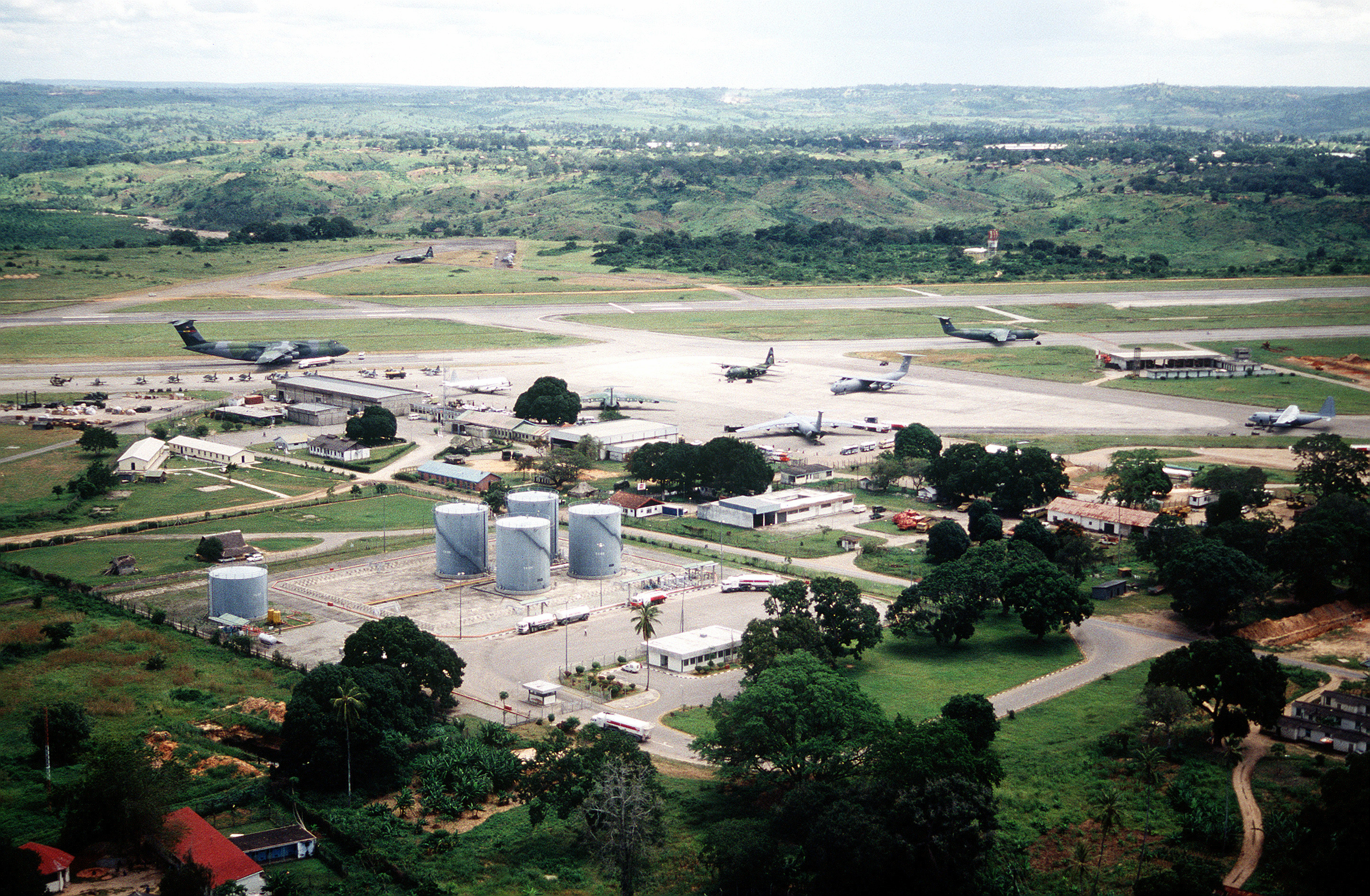 Aerial view of Moi International Airport, one of the main staging areas for the humanitarian airlift flying into Goma, Zaire supporting the Rwandan refugees.